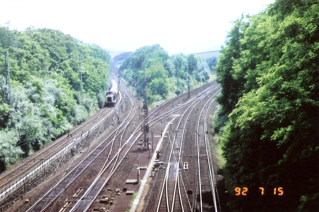 Passenger traffic on the Gelstertal Railway had been shut down for almost 20 years in 1992, but freight traffic continued for a long time on the remaining section from Eichenberg to the industrial area in Witzenhausen. The track ran east of all other tracks and is now overgrown with trees.